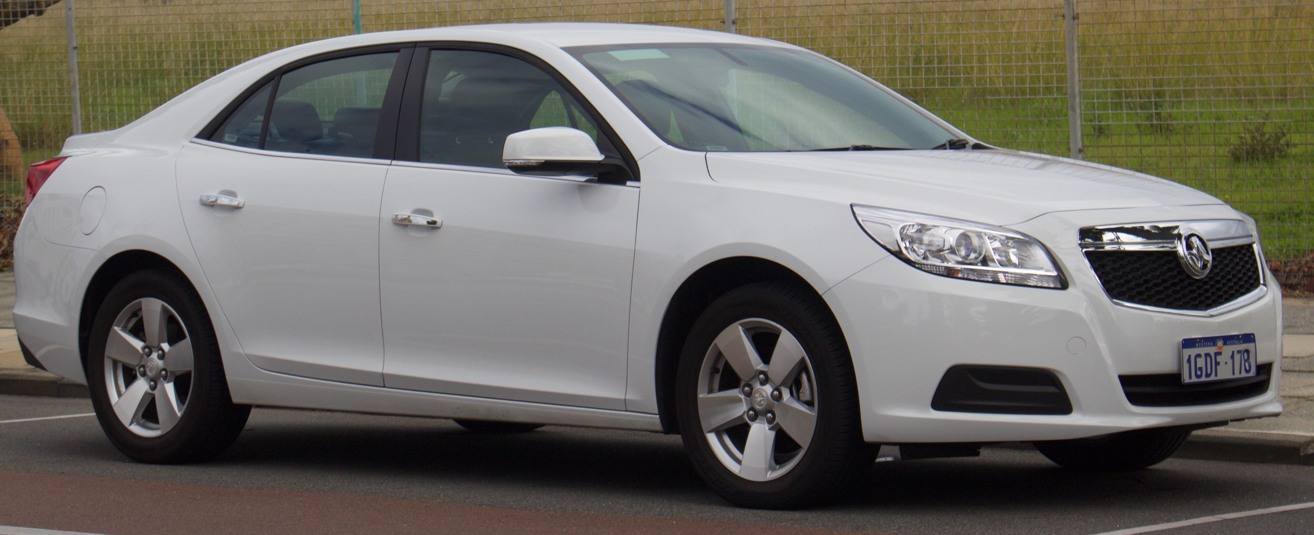 2016 Holden Malibu (EM) CD sedan. Photographed in Fremantle, Western Australia, Australia.